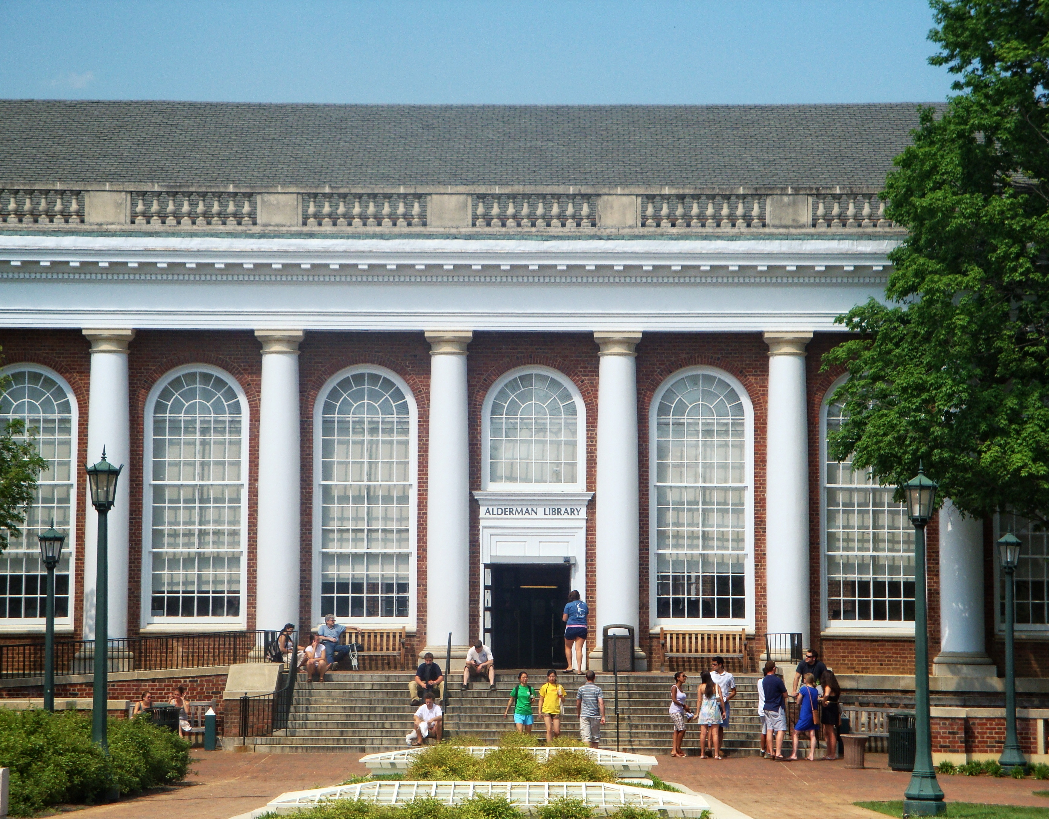 Alderman Library, University of Virginia, Charlottesville, VA